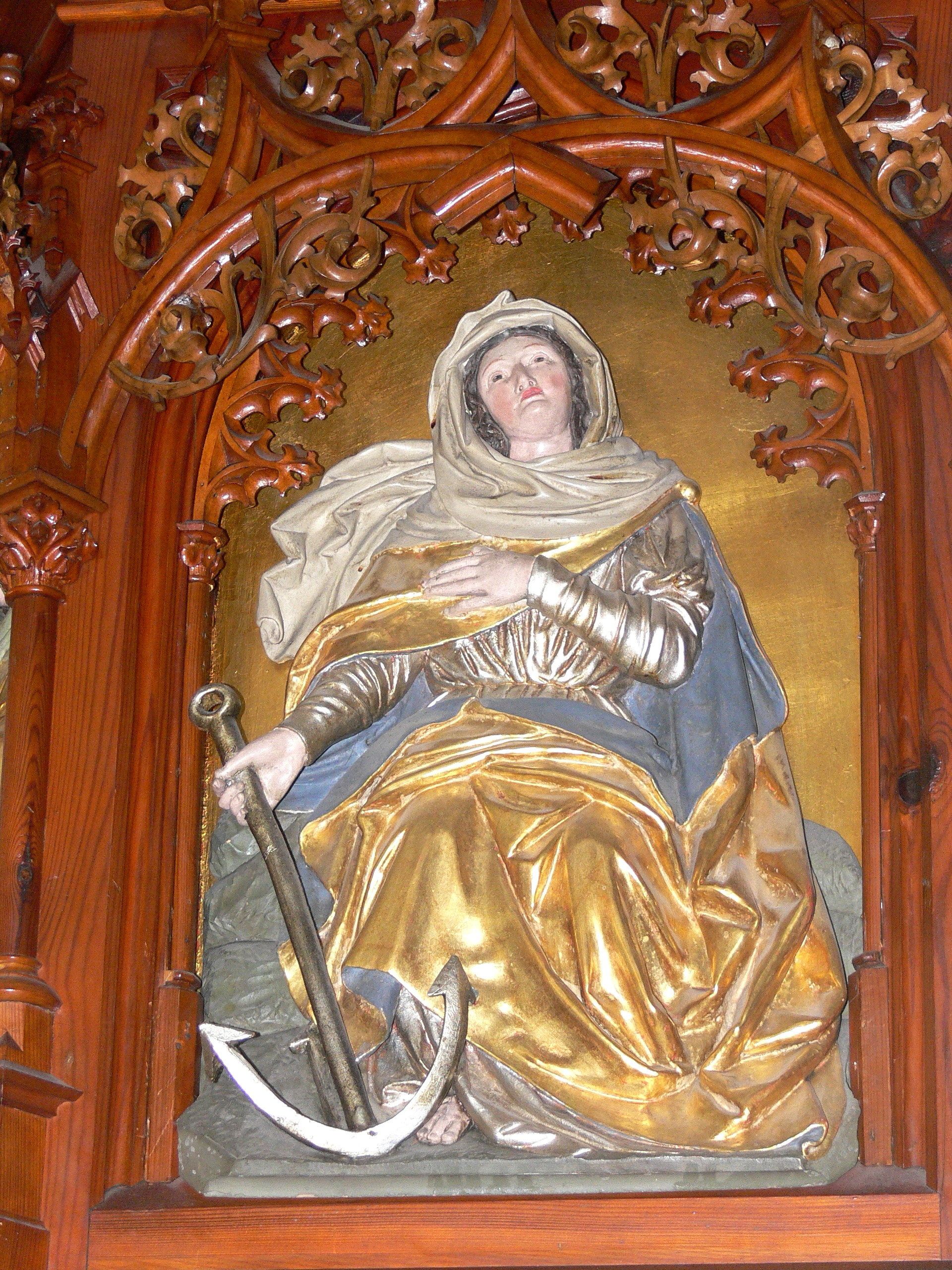 Haslach an der Mühl ( Upper Austria ). Saint Nicholas parish church - Gothic revival pulpit ( 1898 ) - Allegory of Hope.